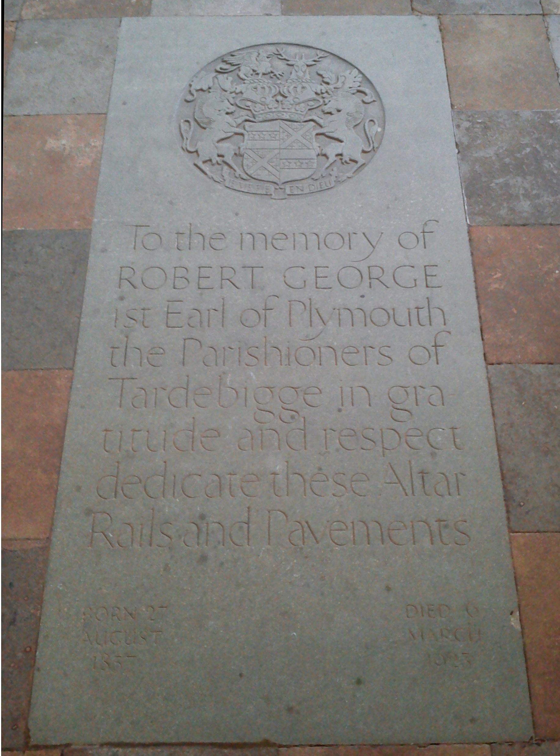 Tardebigge, Worcs: St Bartholomew's Church, memorial in the chancel floor to Robert George Windsor-Clive, 1st Earl of Plymouth (1857–1923)